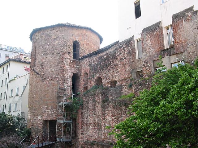 A bit of Roman wall (Milan, III C). 11 m high. With a 24-sided tower shot by Lorenzo Fratti (from with explicit permission).